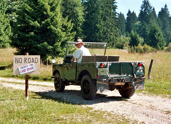 80-inch Series I